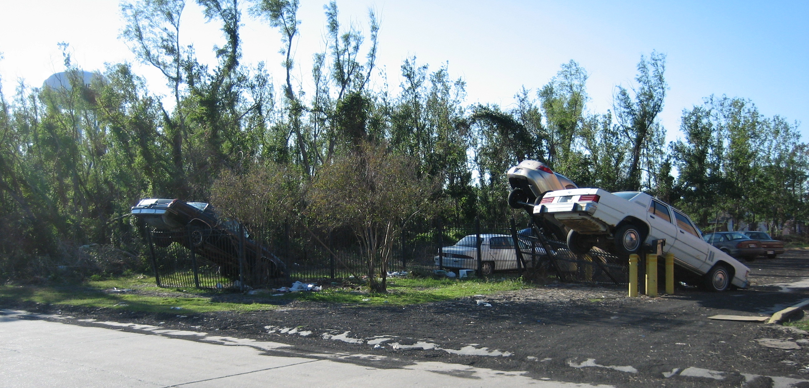 After Hurricane Katrina: Storm tossed cars in Mereaux, Louisiana.